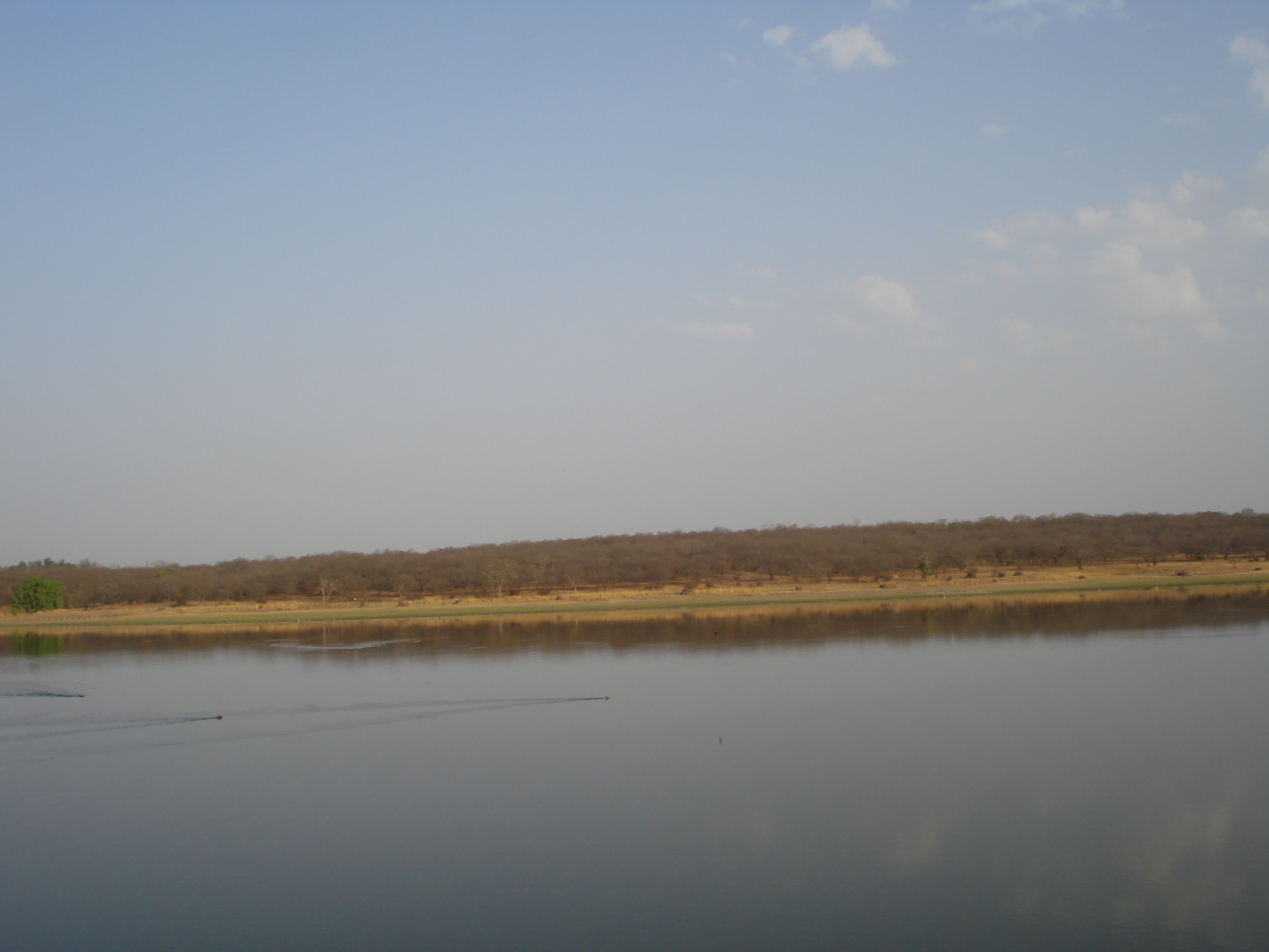 Madhav Natioinal Park in Shivpuri Madhya Pradesh, Madhav National Park Lake, A rare scene of a Chital followed by a hunter dog in the lake, the race gets intercepted by a mugger and Chital is saved